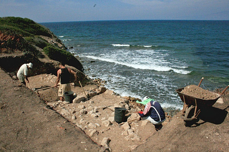 Excavations in Tavşan Adası (Aydın)